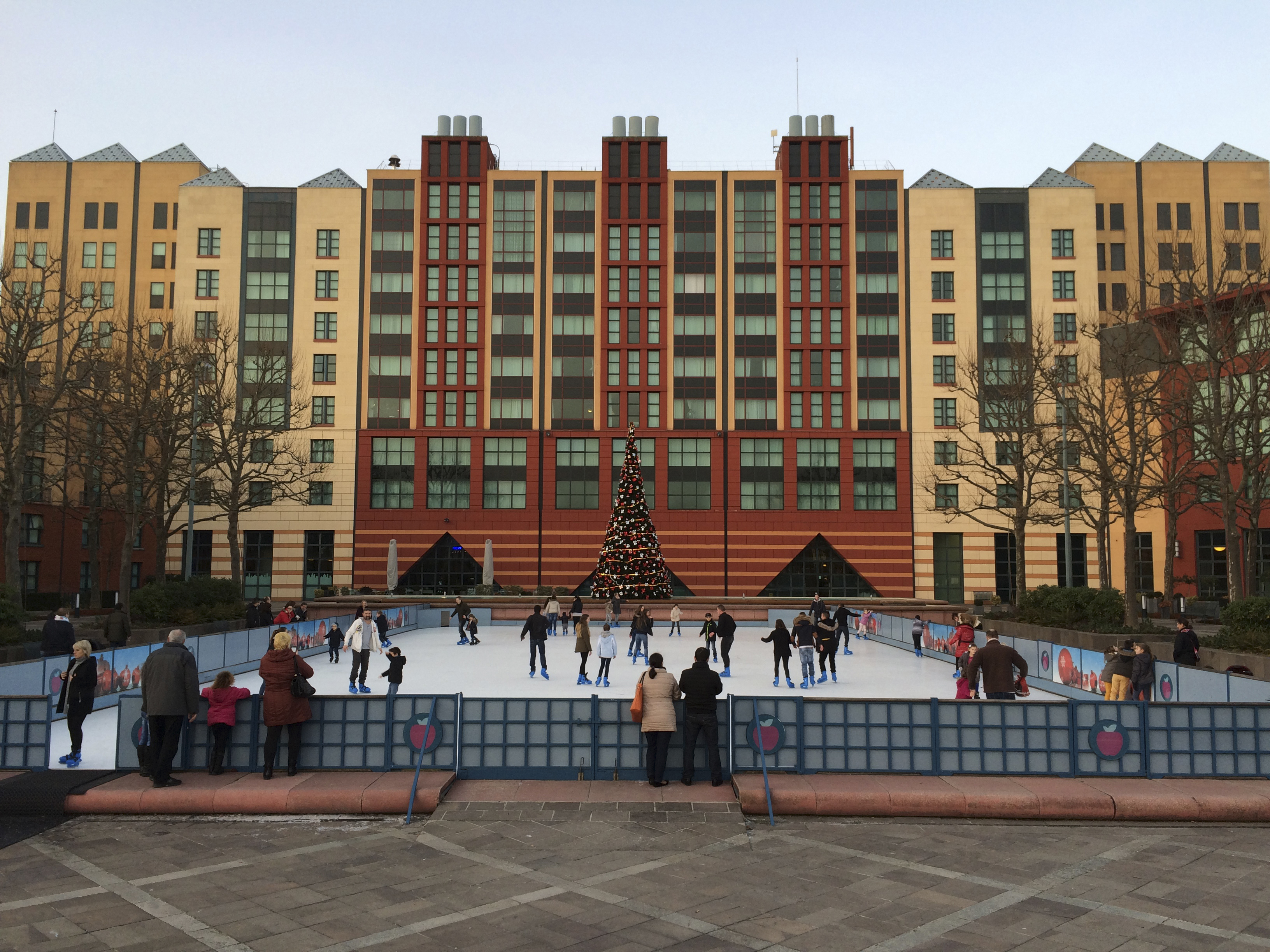 Xtraice rink installed in front of the Hotel New York in Disneyland Paris, Disneyland Paris, France